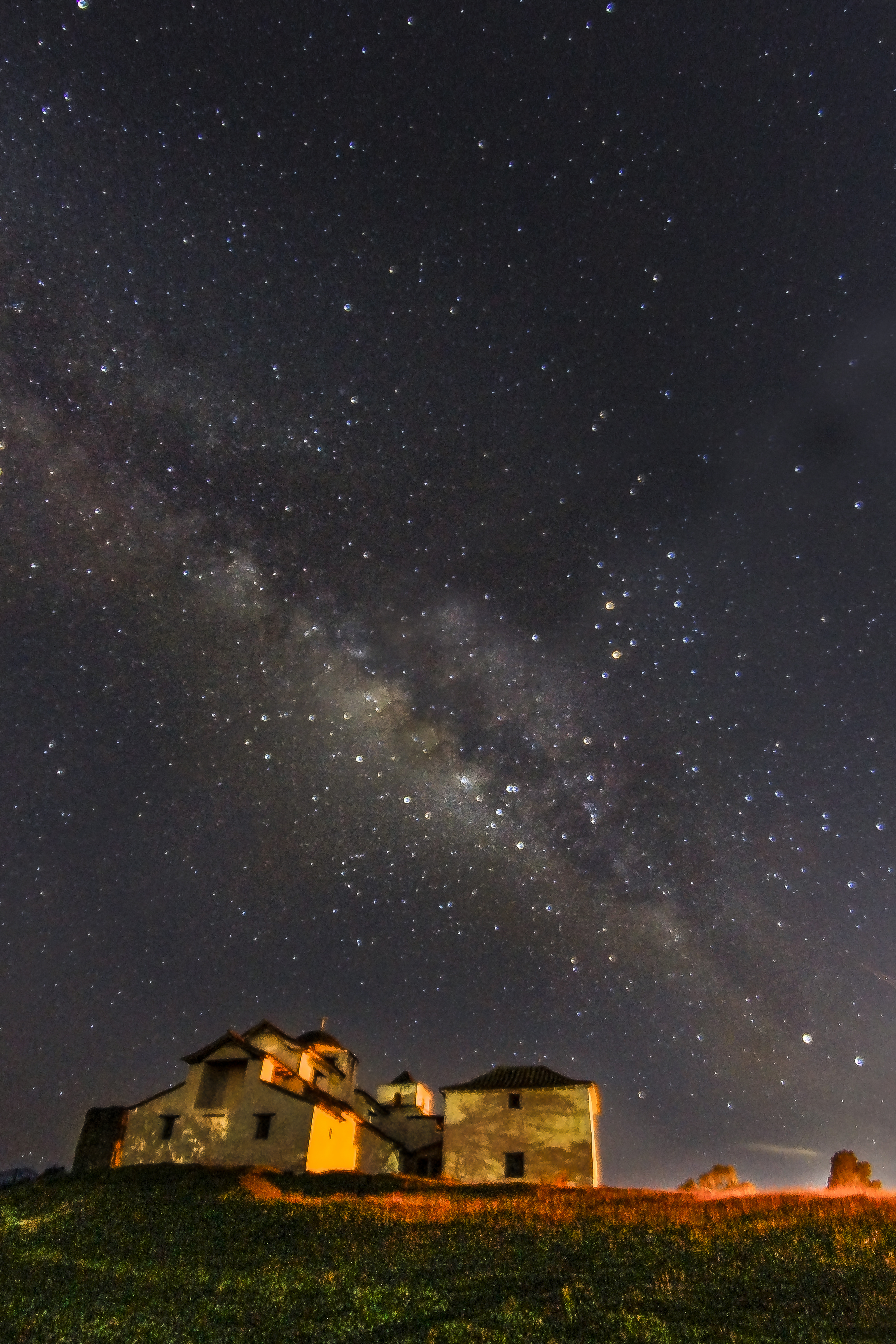 via lactea, capillas de siecha Esta fotografía fue tomada en un área protegida de Colombia con el código 48 del RUNAP.